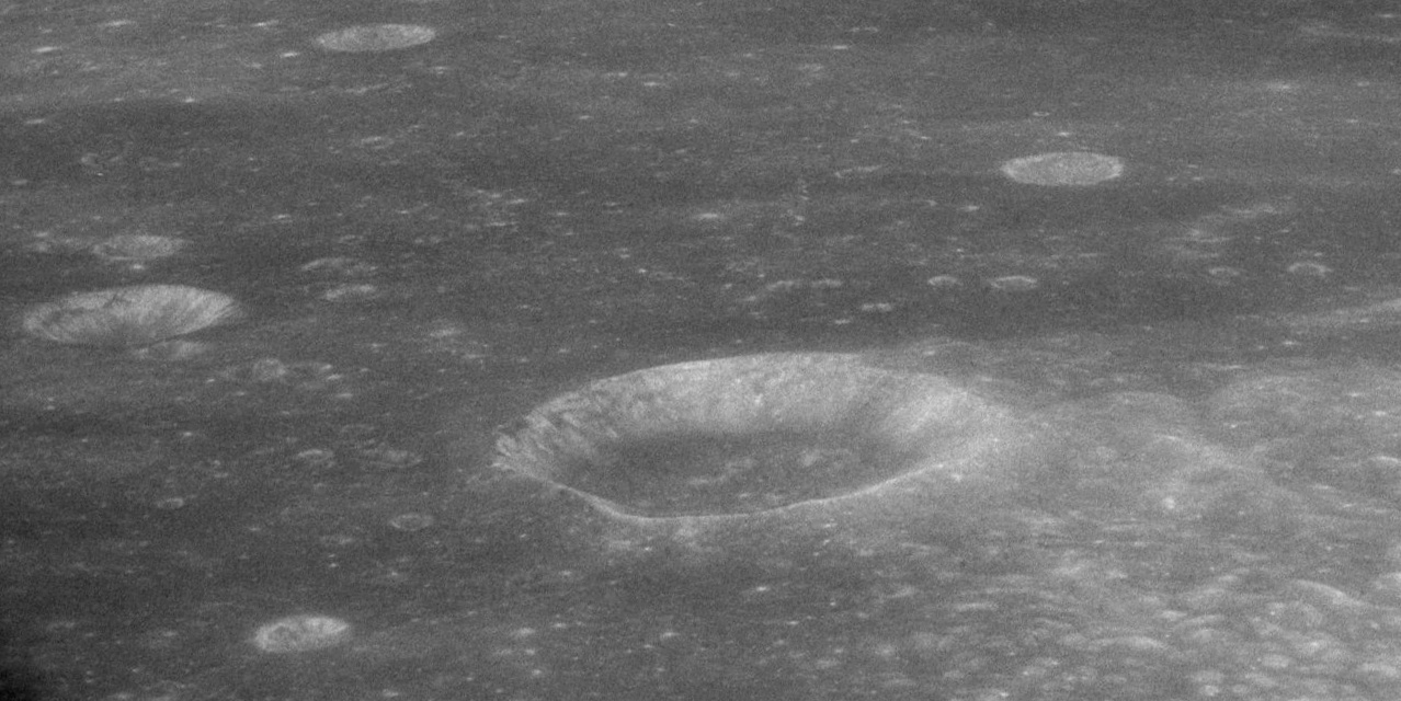 Highly oblique view of Webb at center, with Webb H at left, Webb D at top left, and Webb B above right of Webb itself. Facing west.